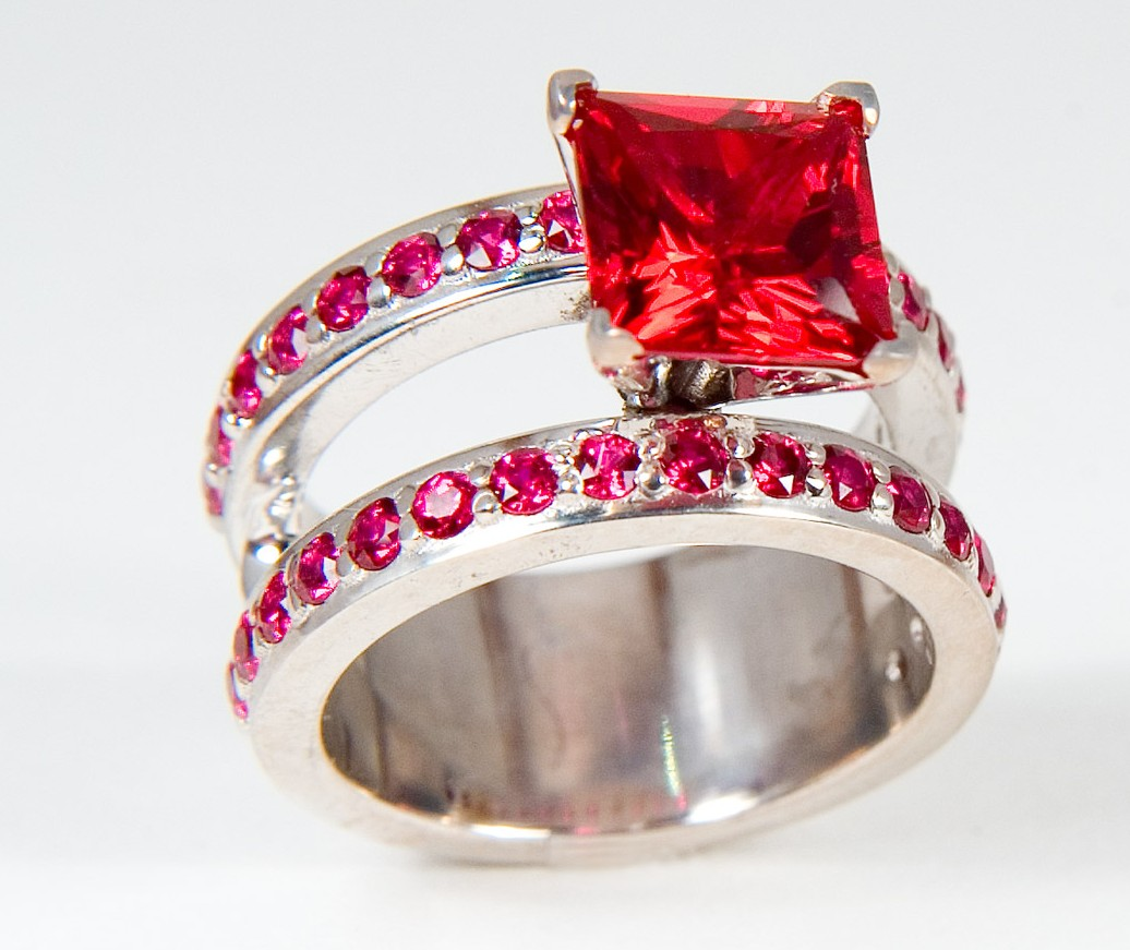 C5 company offers beautiful, sustainable jewelry you can feel good about purchasing, gifting and wearing.